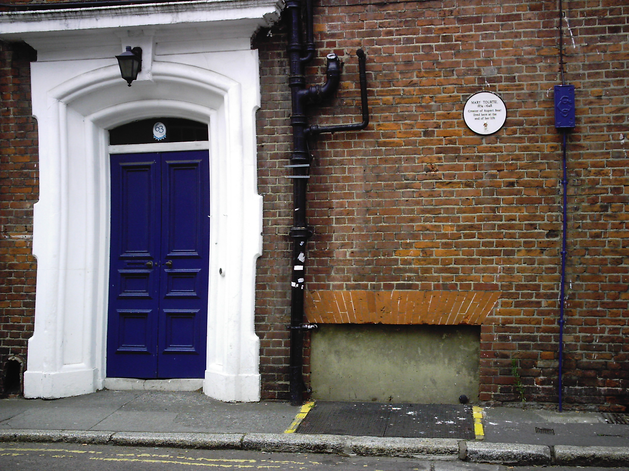 63 Ivy Lane, Canterbury, England. Now part of the Chaucer Swallow Hotel. The plaque is to Mary Tourtel, creator of Rupert Bear Suzanne Knights, July 2007, my pic